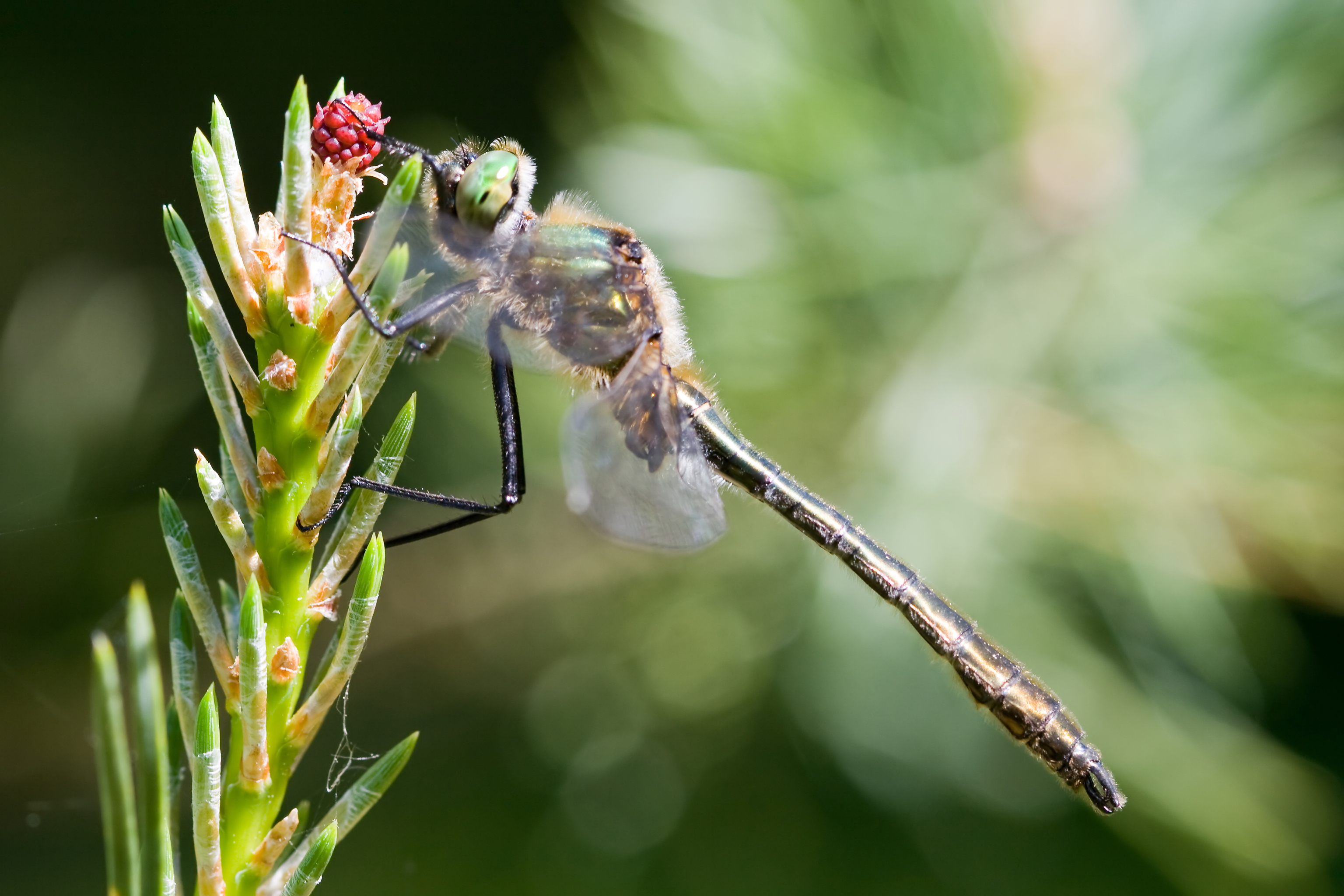 A male of the Downy Emerald (Cordulia aenea) in the Ahlenmoor, a peatland in northern Lower Saxony, Germany.